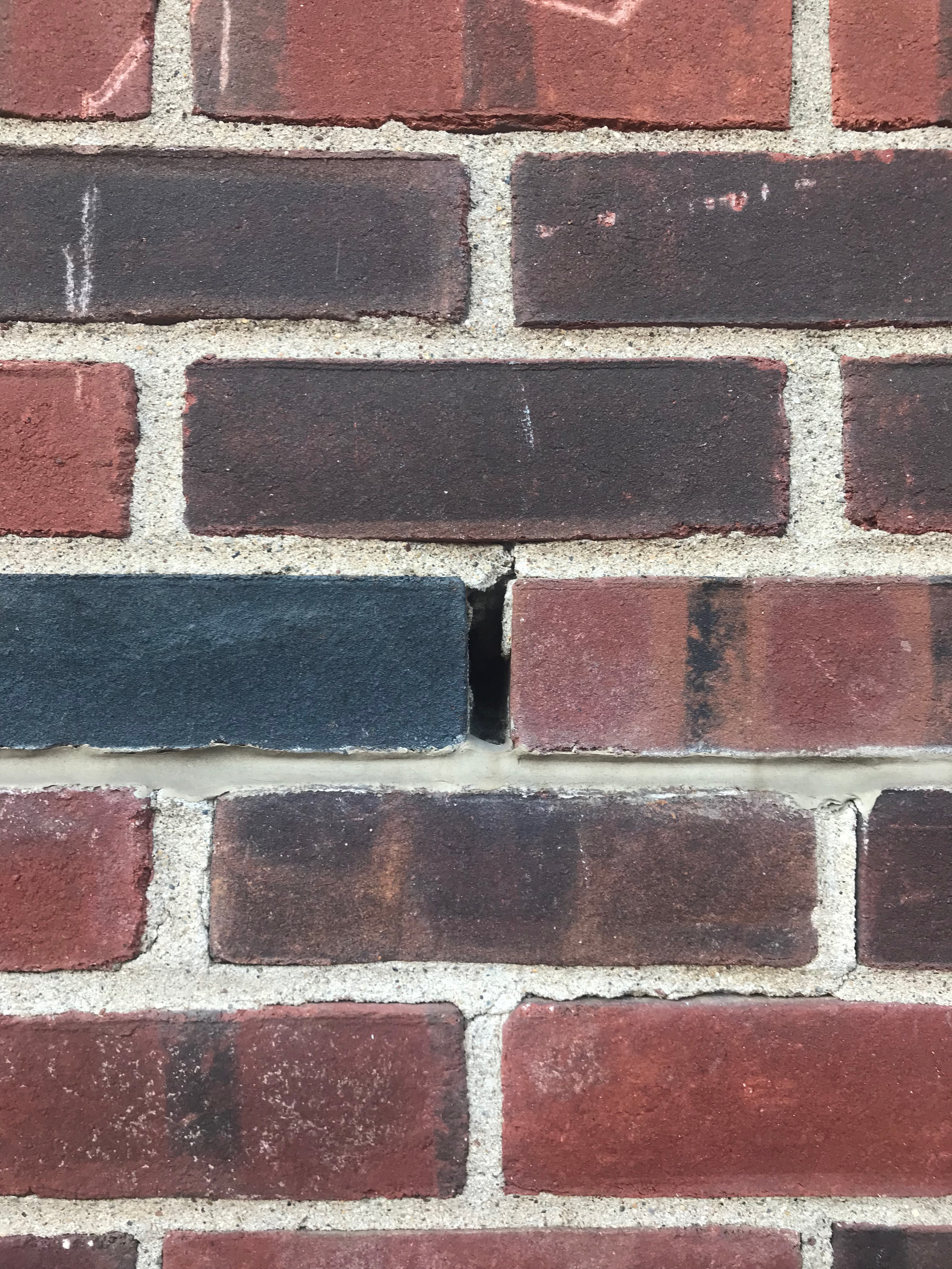 Typical weep hole in brick masonry wall replace the space of the mortar joint to allow water to leave the cavity.